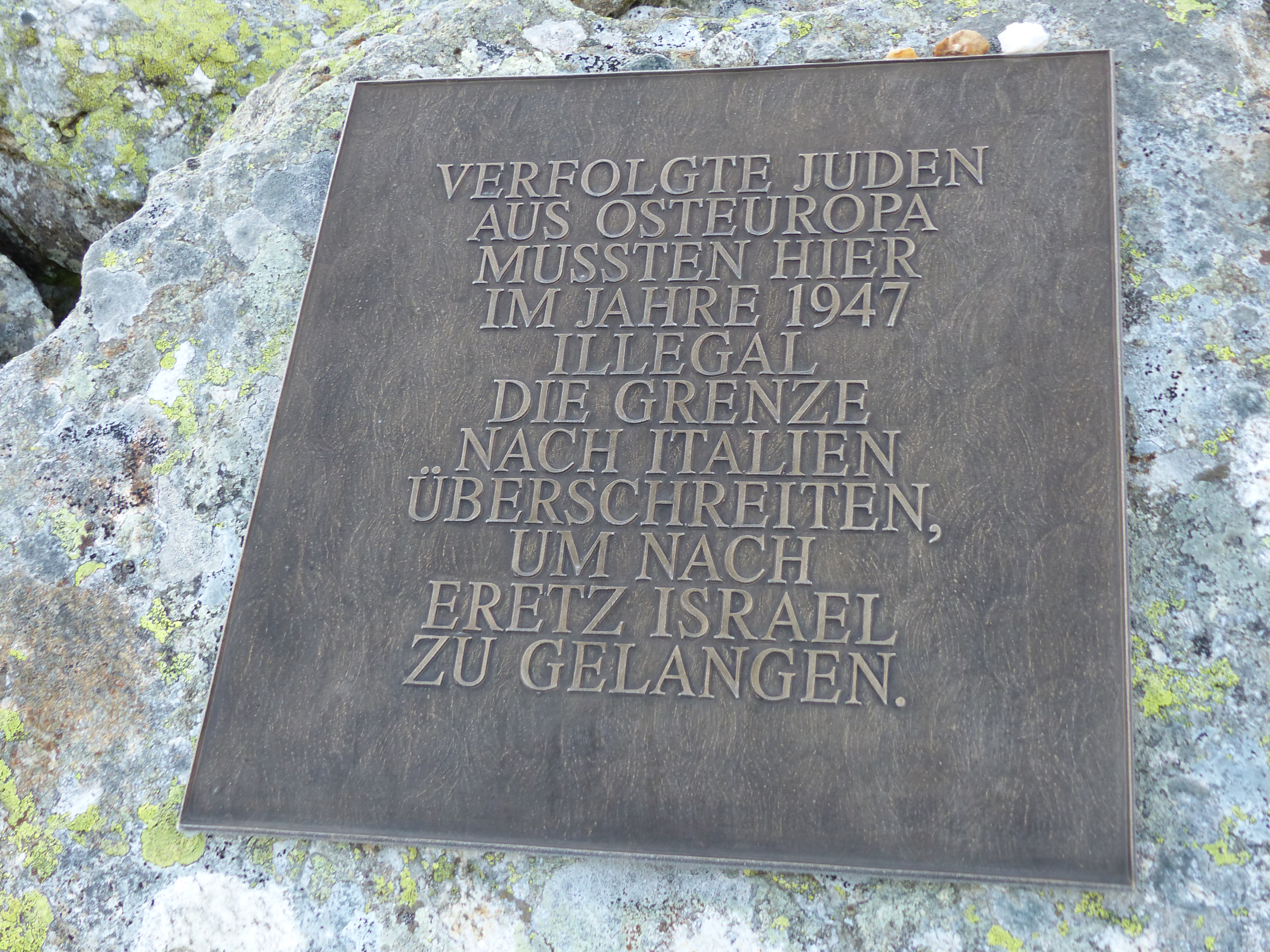 Krimmler Tauern. Commemorative plate for Jews who went on this way to Israel.